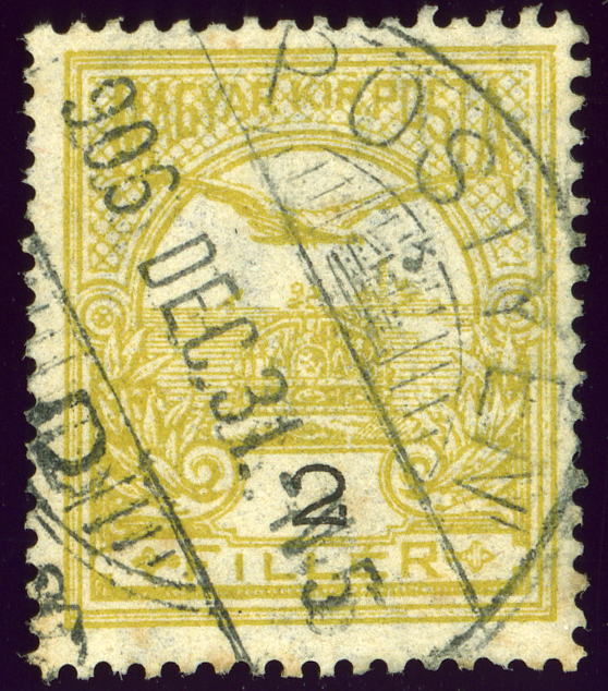 Kingdom of Hungary 2 fillér olive-yellow stamp (SG141), perforated 15 (sub-issue 1906), cancelled PÖSTYEN (Slovakia) in 1906.